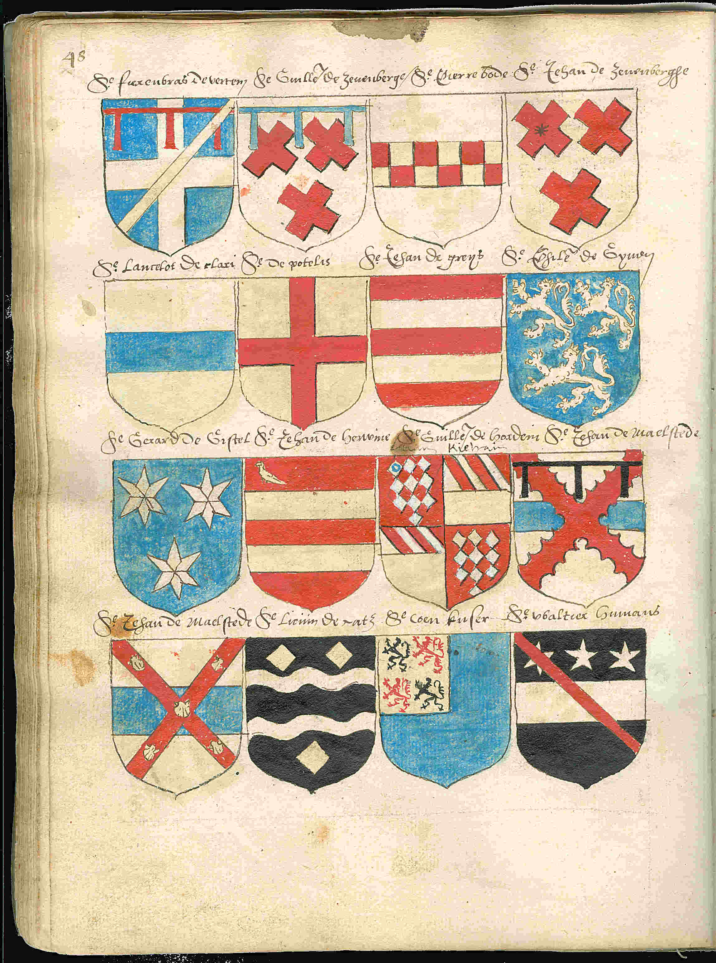 Page 48 from a copy of the Beyeren armorial / Wapenboek Beyeren from ca. 1600. The original Beyeren armorial from 1405 can be viewed at the website of the KB